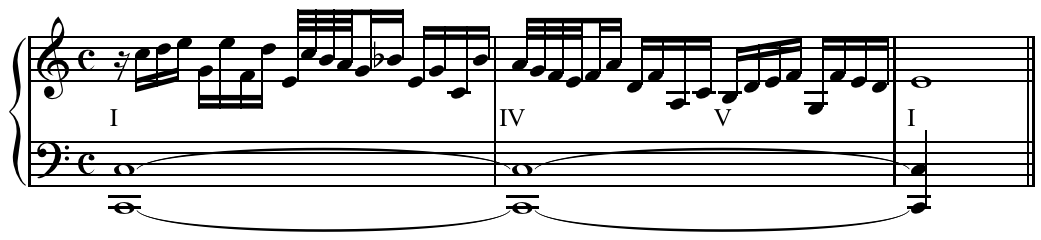 I-IV-V-I in Bach's WTC II, Prelude in C Major.